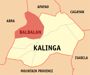 Map of Kalinga showing the location of Balbalan